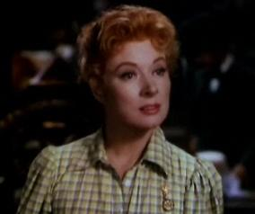 Cropped screenshot of Greer Garson from the trailer for the film Scandal at Scourie